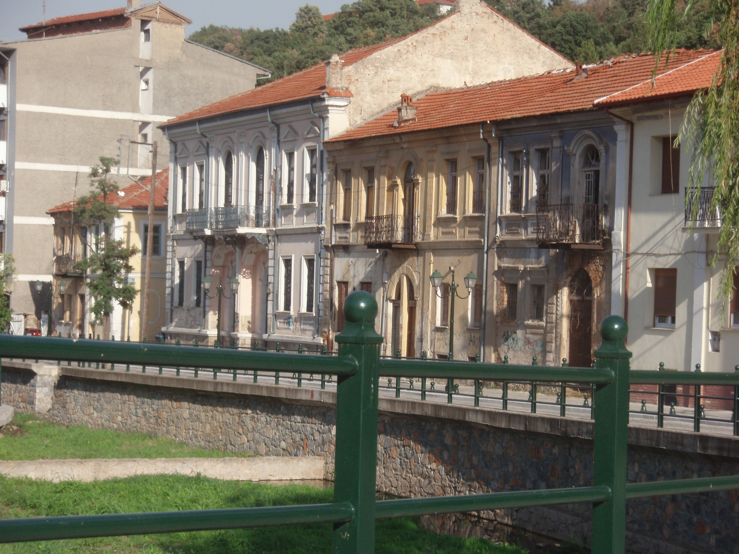 Neoclassical houses at the shoreline of Sakoulevas river, Florina (city), Greece.